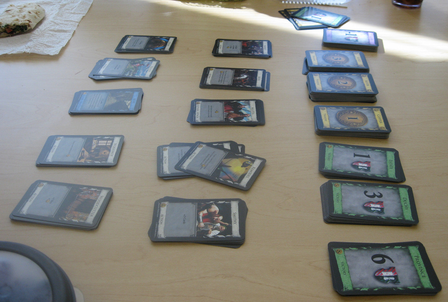 A set up of the card game Dominion